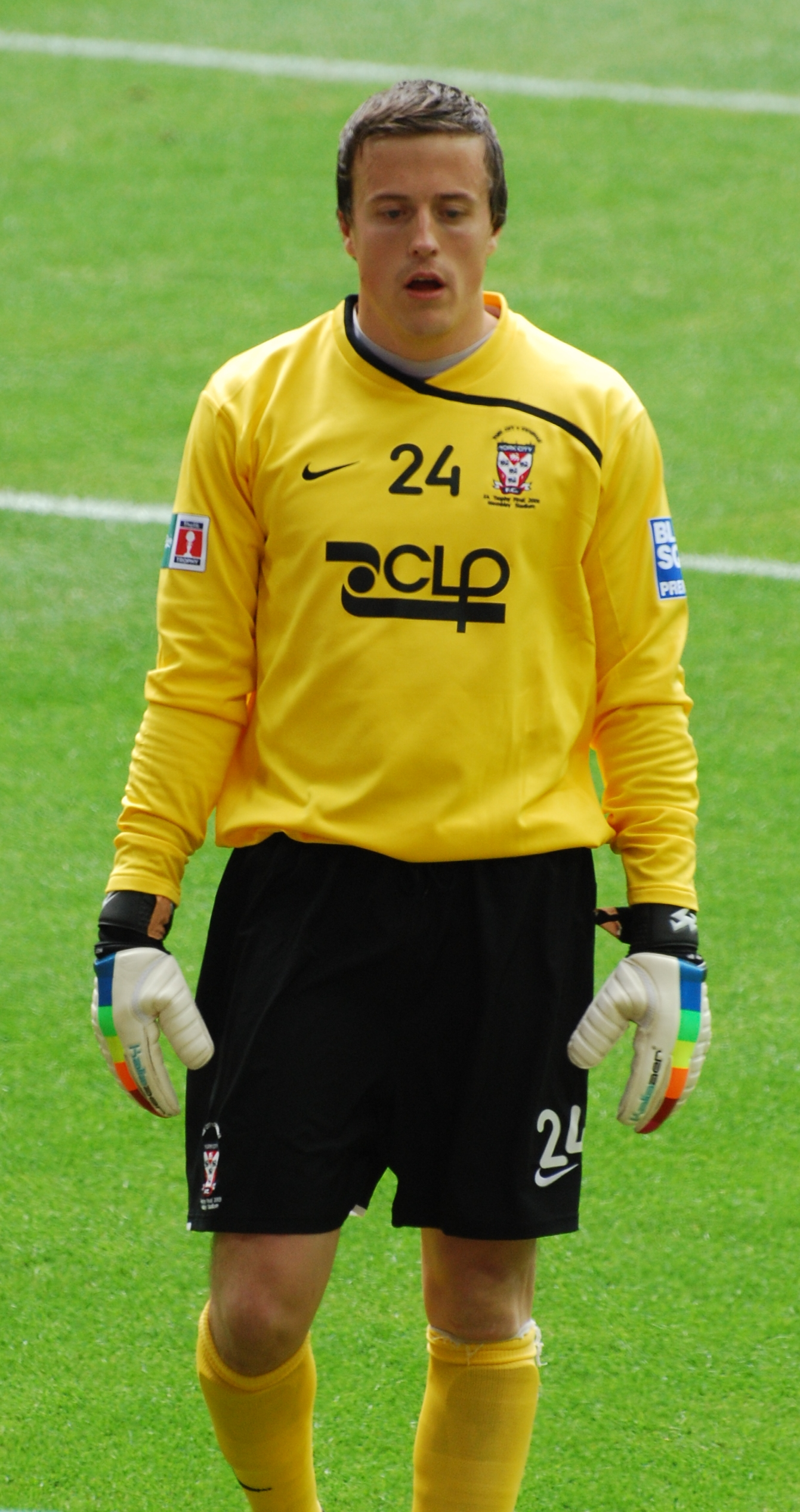 Michael Ingham playing for York City against Stevenage Borough at Wembley Stadium, London on 9 May 2009